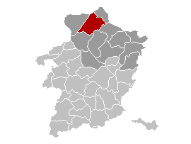 Map, municipality belgium Pelt.